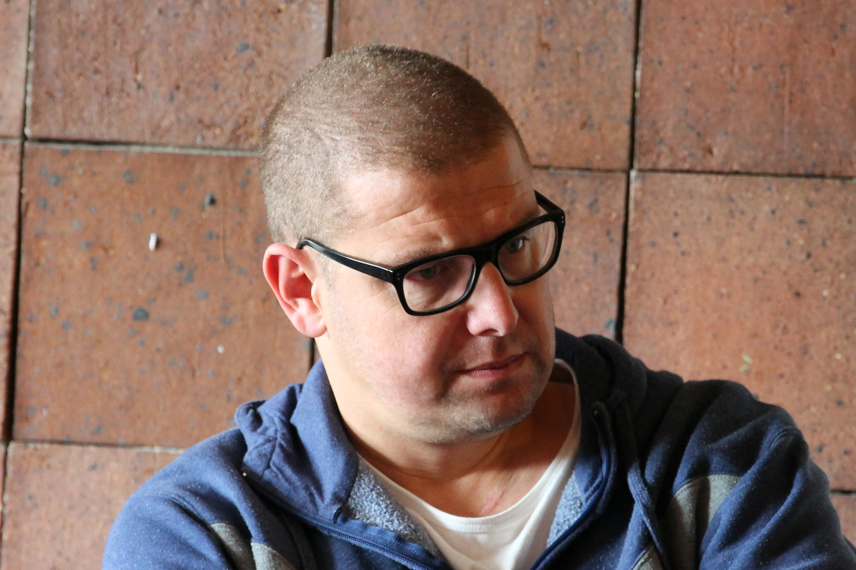 Jindřich Šídlo during discussion taken at Summer school of Občanský institut (Citizen institute), Erlebachova bouda (Erlebach's chalet), Špindlerův Mlýn, Czech Republic